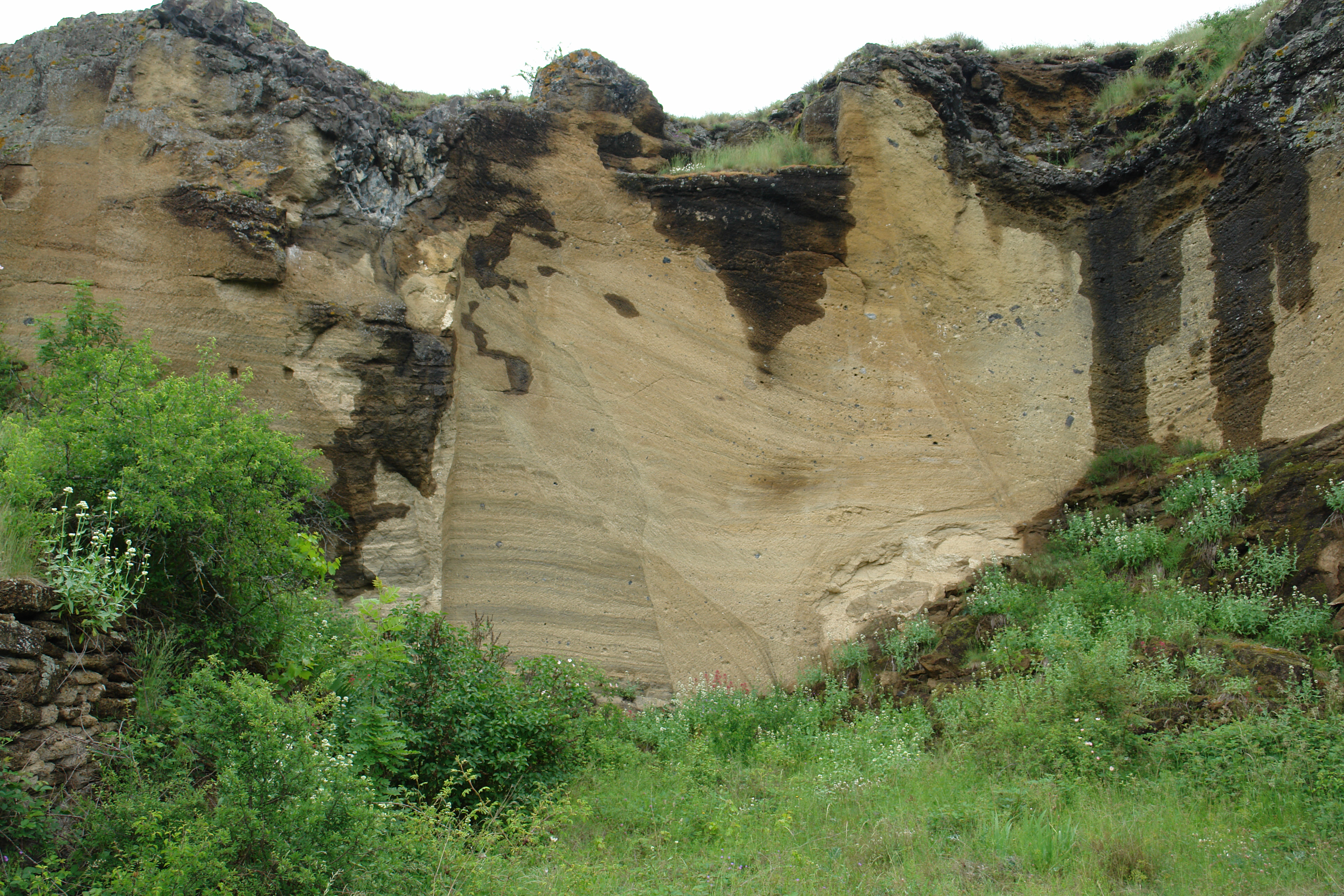 Pyroclastic rock in Langeac in Auvergne in France